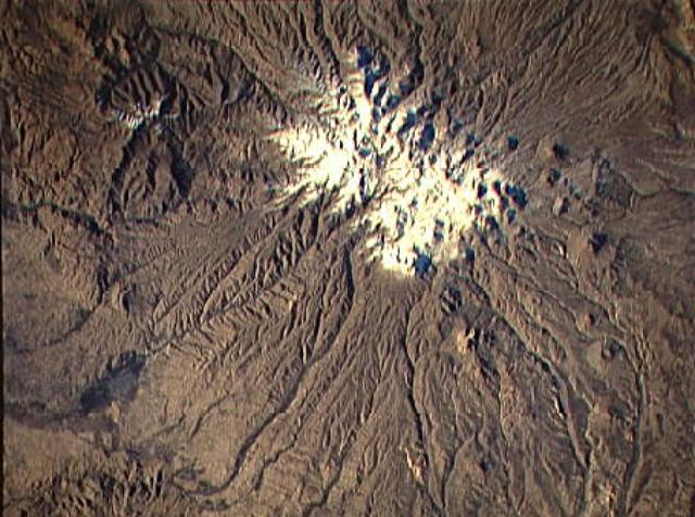 NASA Space Shuttle image of Sahand, a massive eroded stratovolcano in northwestern Iran. Top of image is NW.